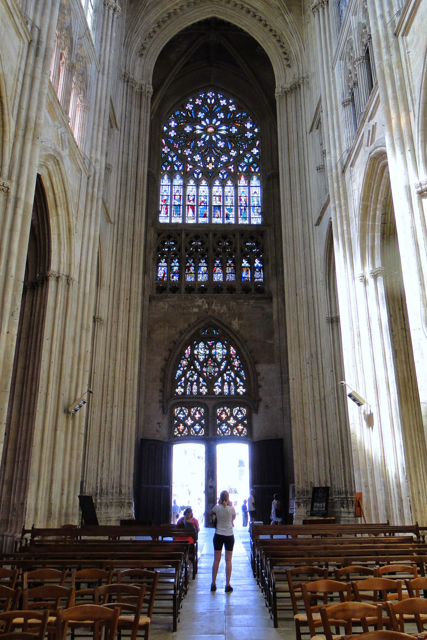 Main gate